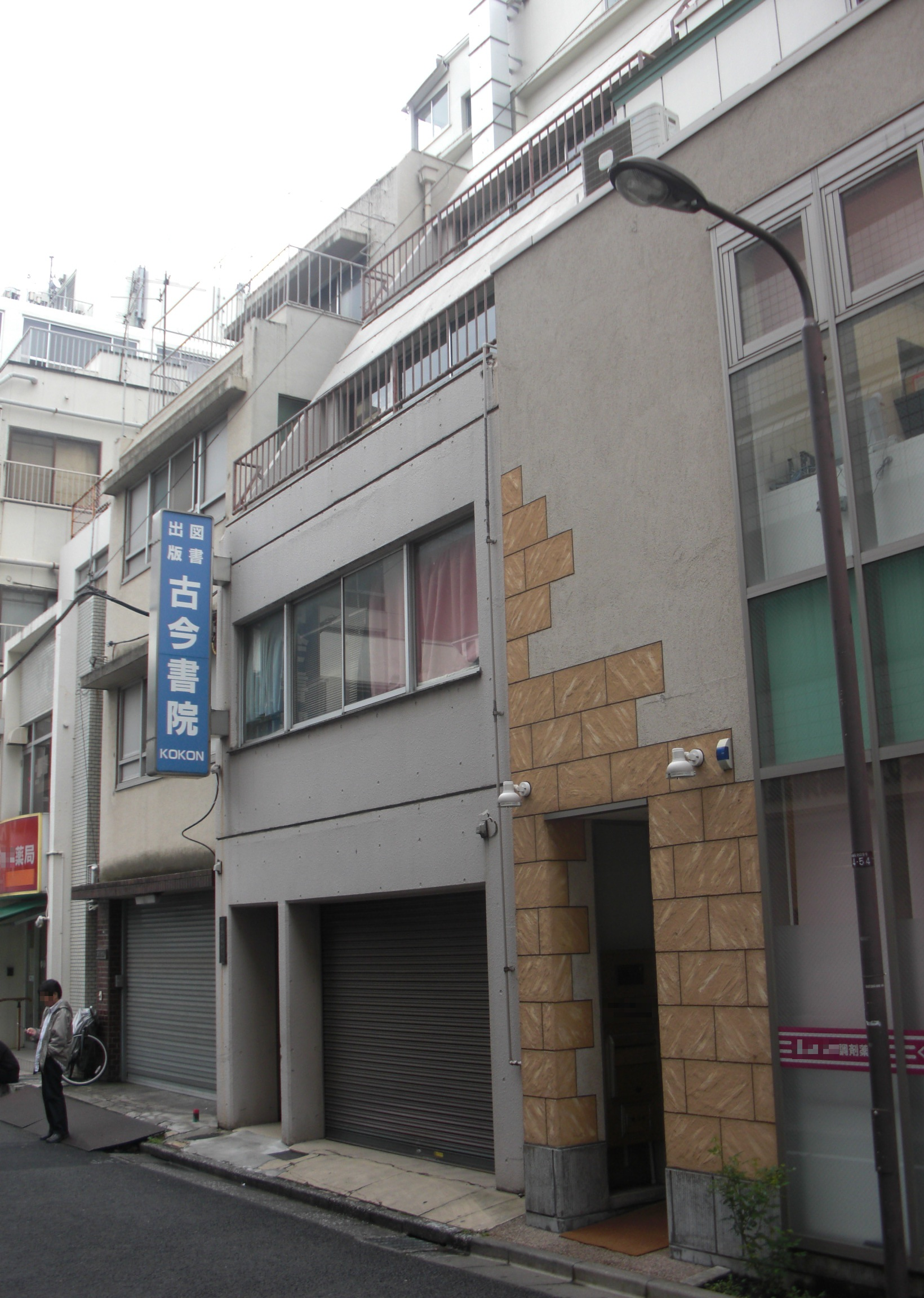 This is the head office of Kokon-shoin in Tokyo, Japan. Kokon is known as a publisher of related to geography.